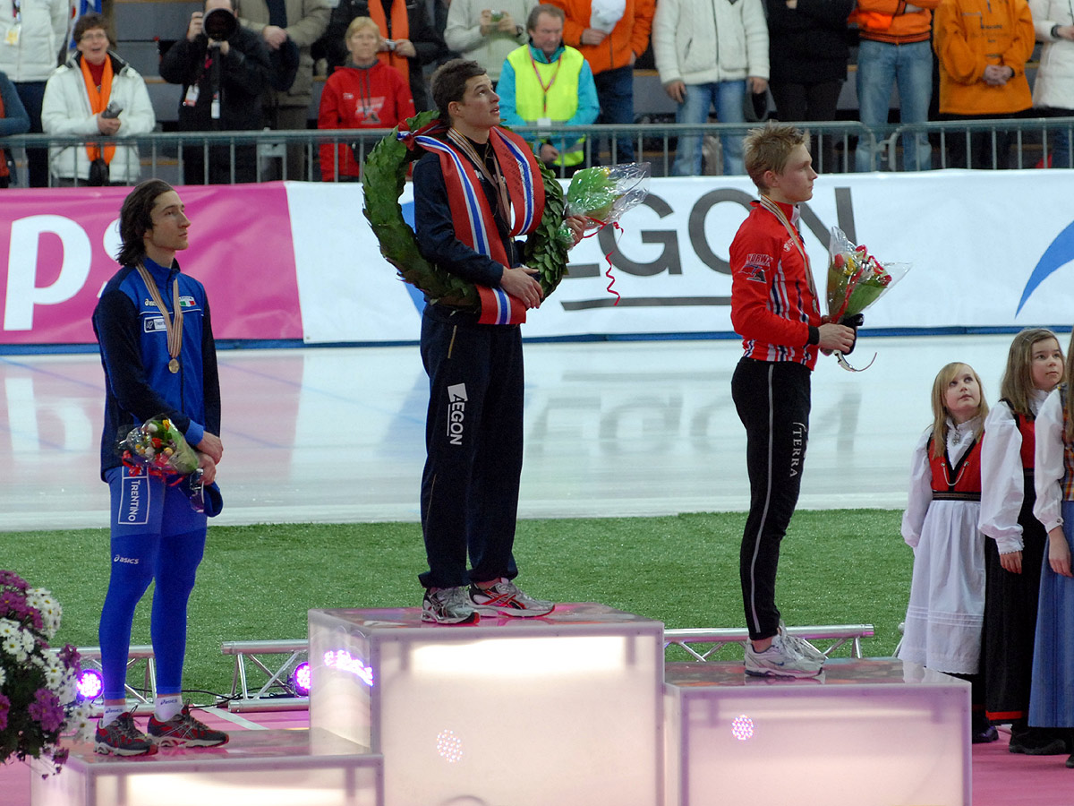 The mens podium at the 2009 World Allround Speed Skating Championships: Enrico Fabris (bronze), Sven Kramer (gold) and Håvard Bøkko (silver).